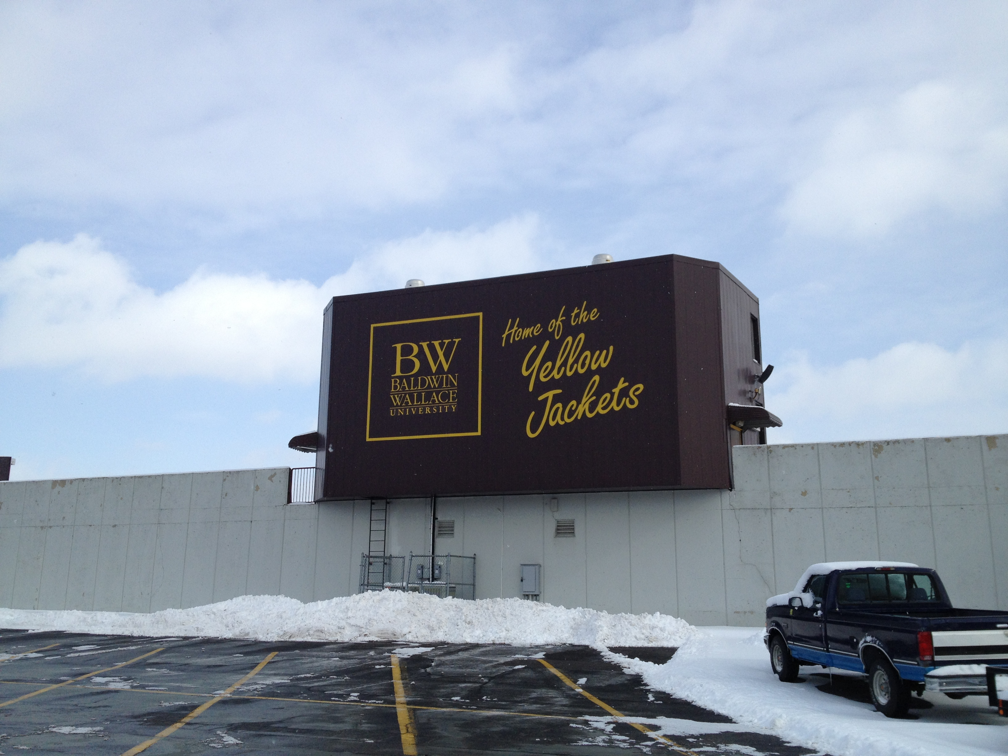 George Finnie Stadium west side on Baldwin Wallace University North Campus